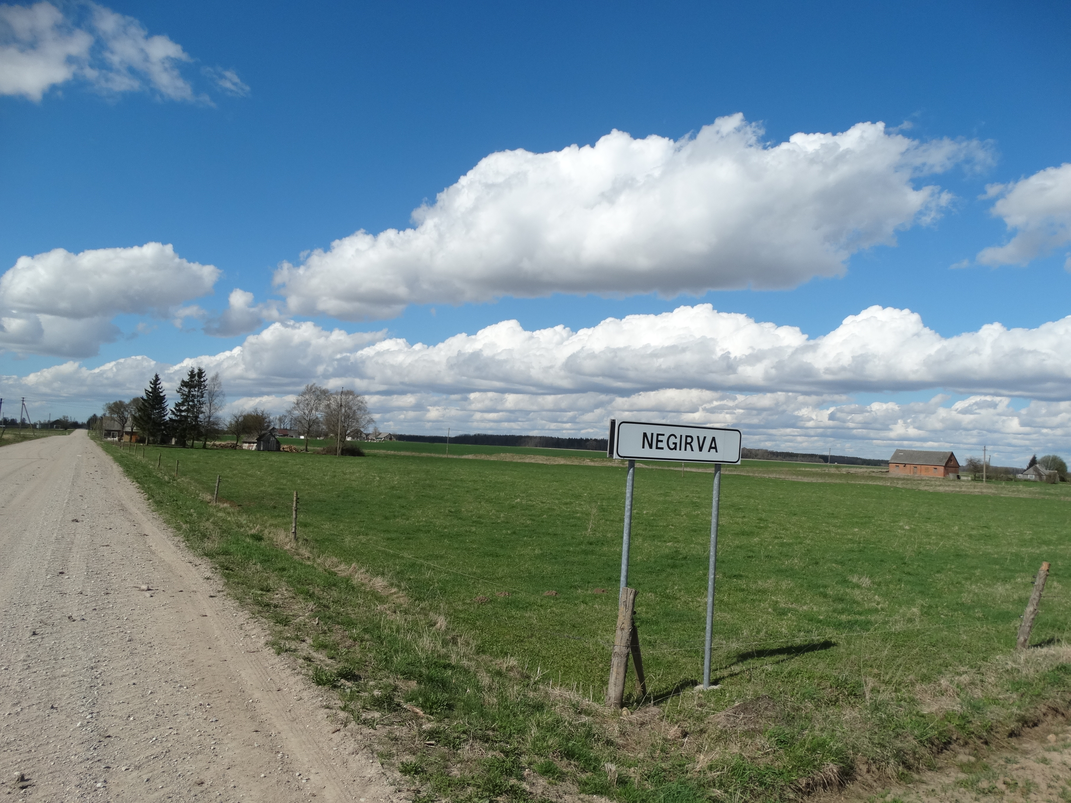 Negirva, Raseiniai District, Lithuania